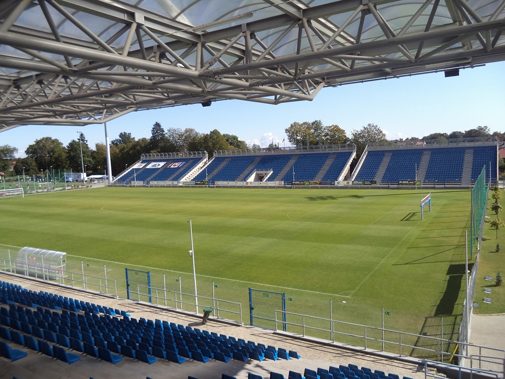 Ostróda stadium. - 3 Maja street 19, 14-100 Ostróda, Poland